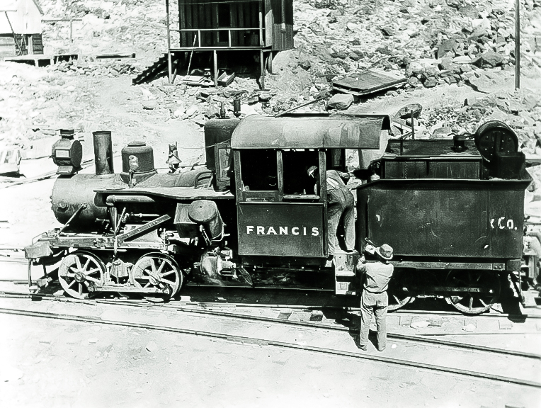 2-truck Heisler locomotive #2 "Francis" was built at the Stearns Manufacturing Locomotive Works of Erie, Pennsylvania in January 1899 with the plans of Charles L. Heisler with the build number of #1026, and worked for the following railroads: Borate and Daggett Railroad; Daggett, California Death Valley Railroad; Death Valley Junction, California Nevada Short Line Railway; Rochester, Nevada Terry Lumber Company; Round Mountain, California Red River Lumber Company; Round Mountain, California The engine's current state is not known since it was lost after 1925.